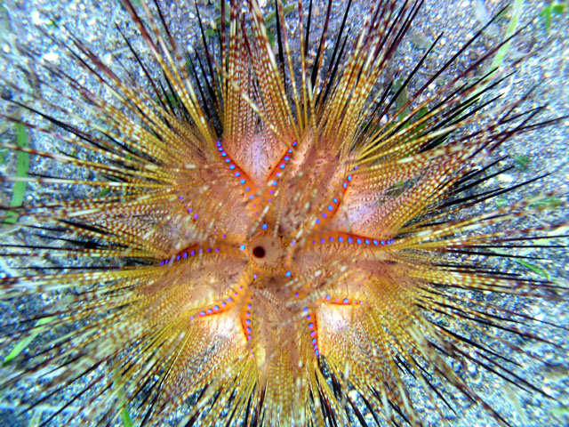 Star urchin (Astropyga radiata), Anilao, Batangas, Philippines